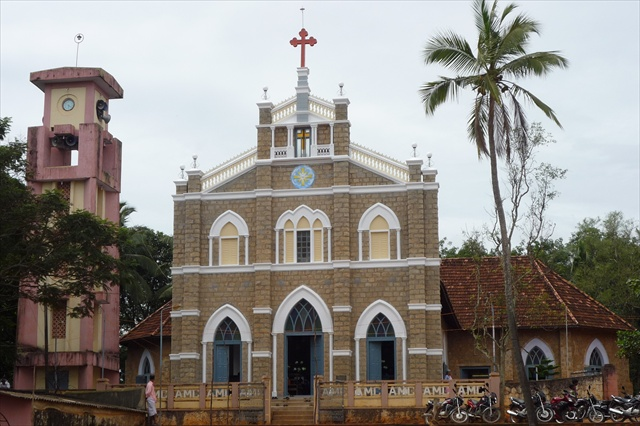 Abbs Memorial Churc Parachalay